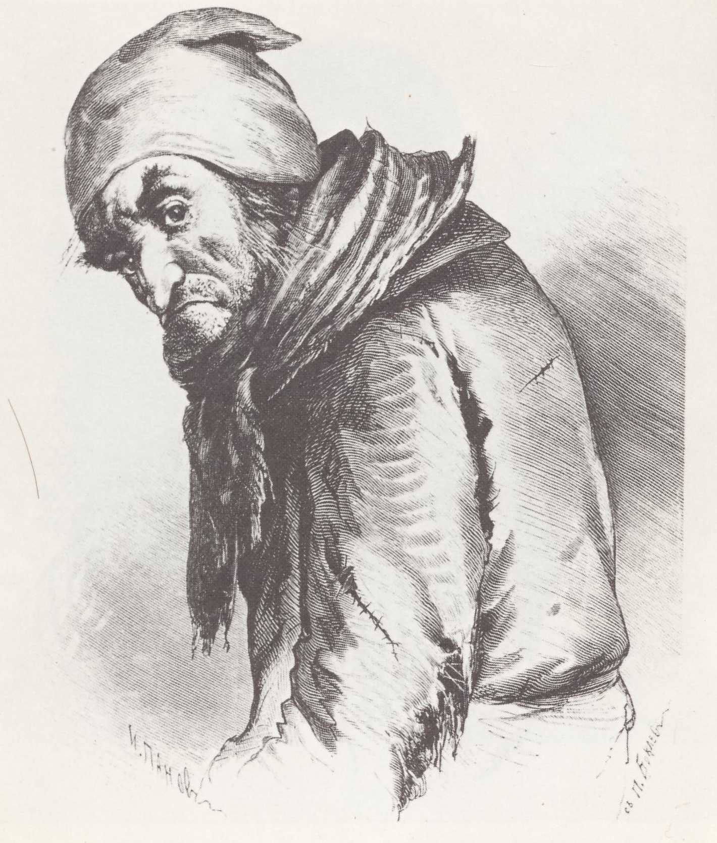 Plyushkin. Illustration for Nikolai Gogol's Dead Souls